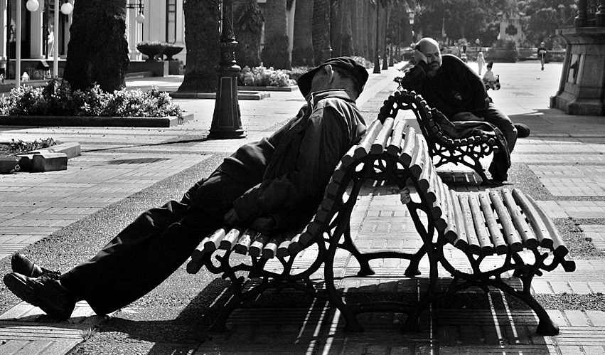 A couple of guys sleeping near the Kiosko Alfonso in A Coruña (Galicia, España.